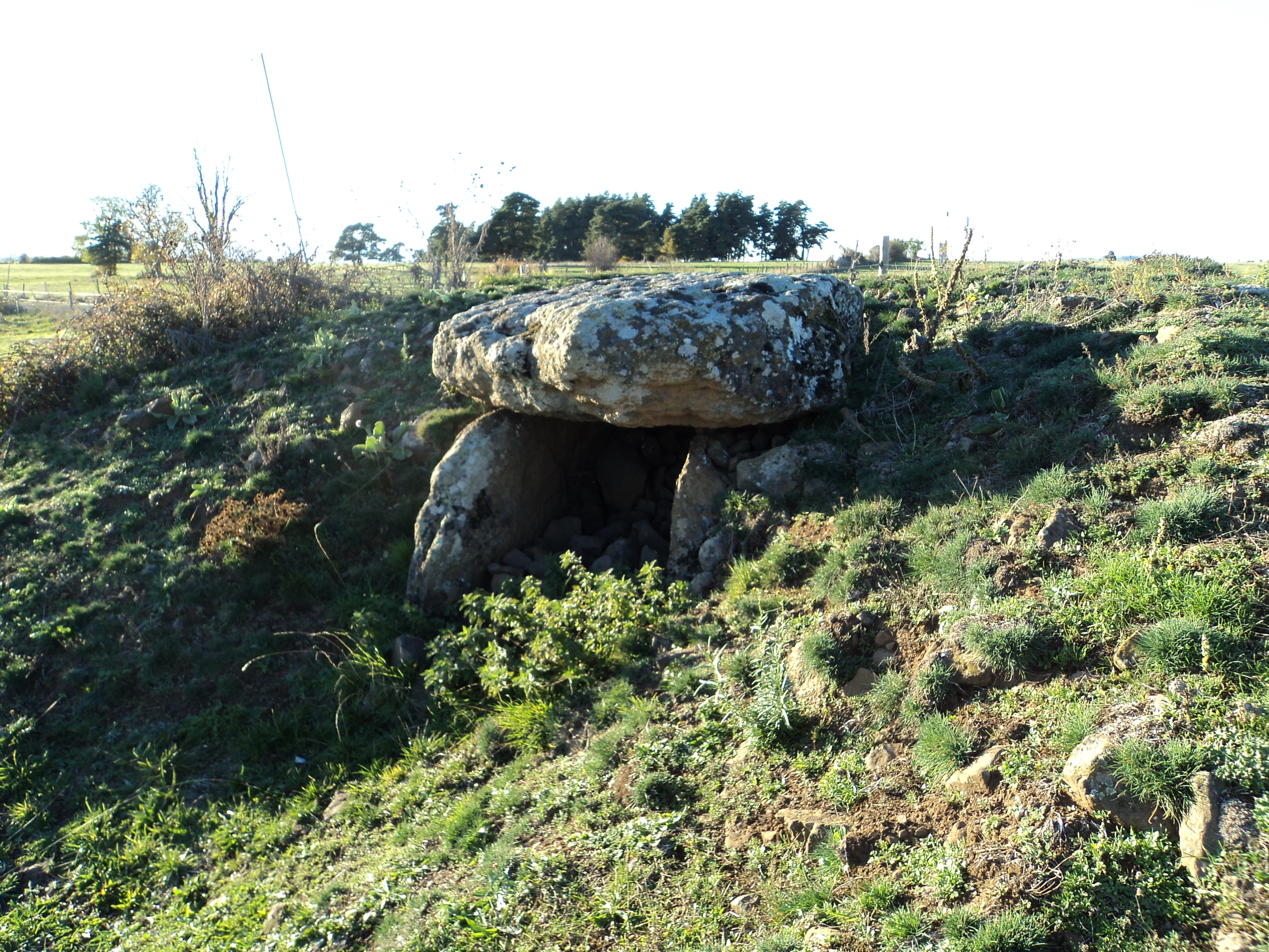 Object location45° 02′ 35.88″ N, 3° 06′ 54.36″ E